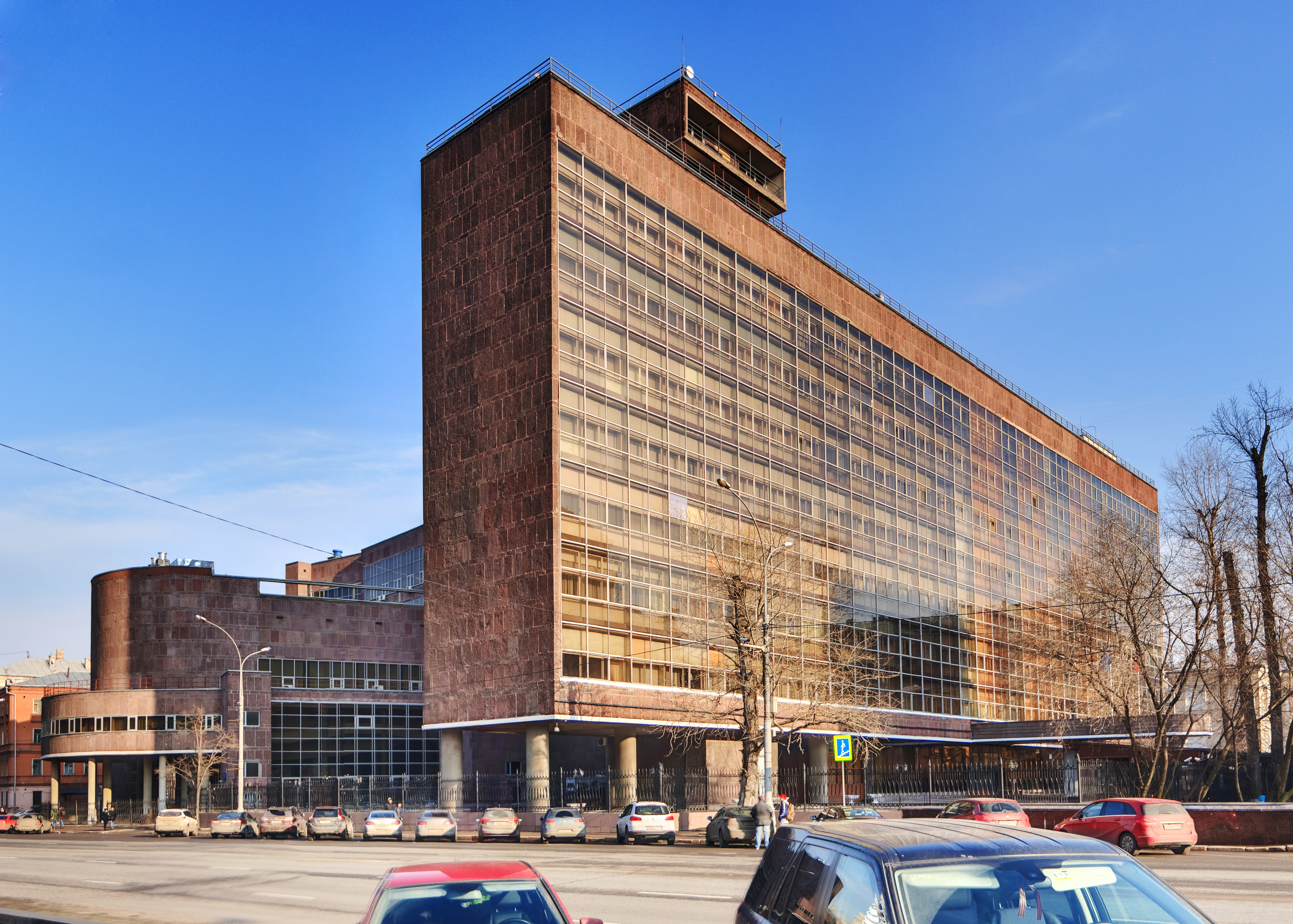 Tsentrosoyuz building, Moscow